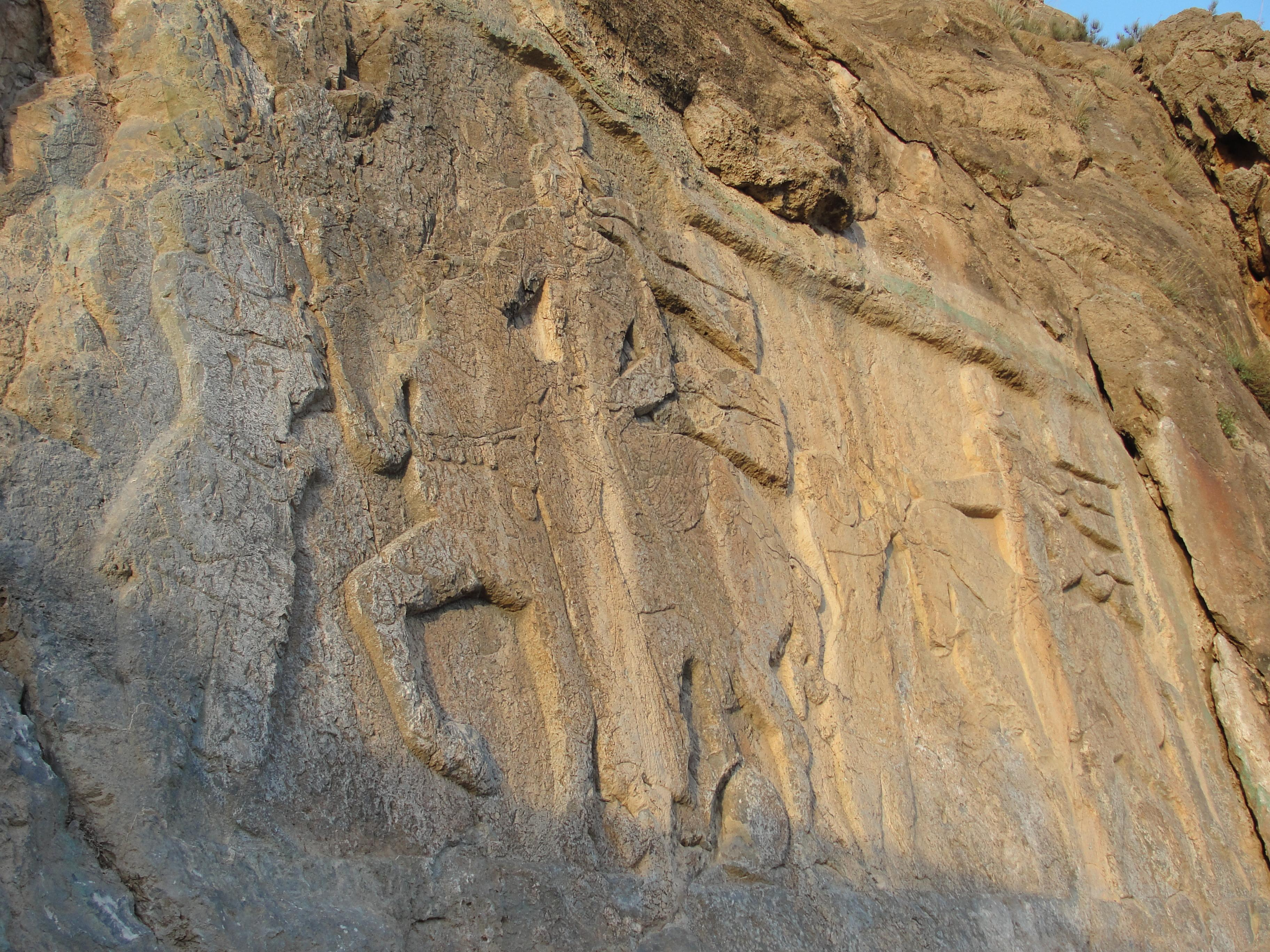 Khan Takhti rock relief - From left to right: Armenian nobleman, Ardashir I, Armenian nobleman, Shapur I